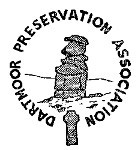 DPA logo from 1966 with Nunn's Cross incorporated